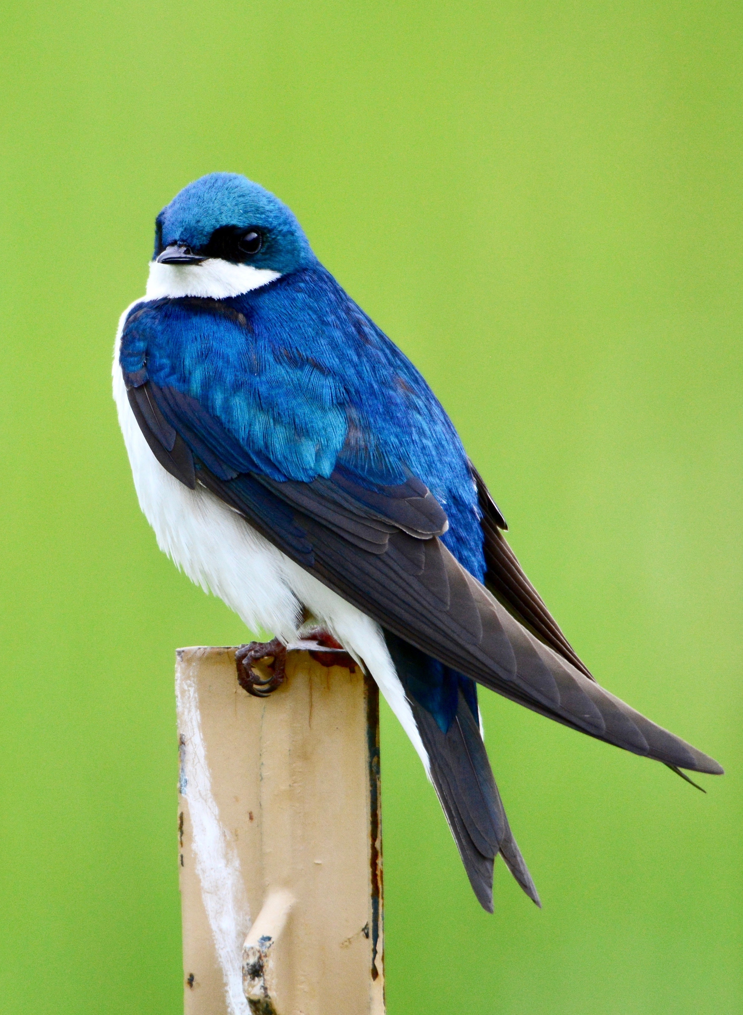 A tree swallow sitting on a post at Stroud Preserve, West Chester, Pennsylvania.